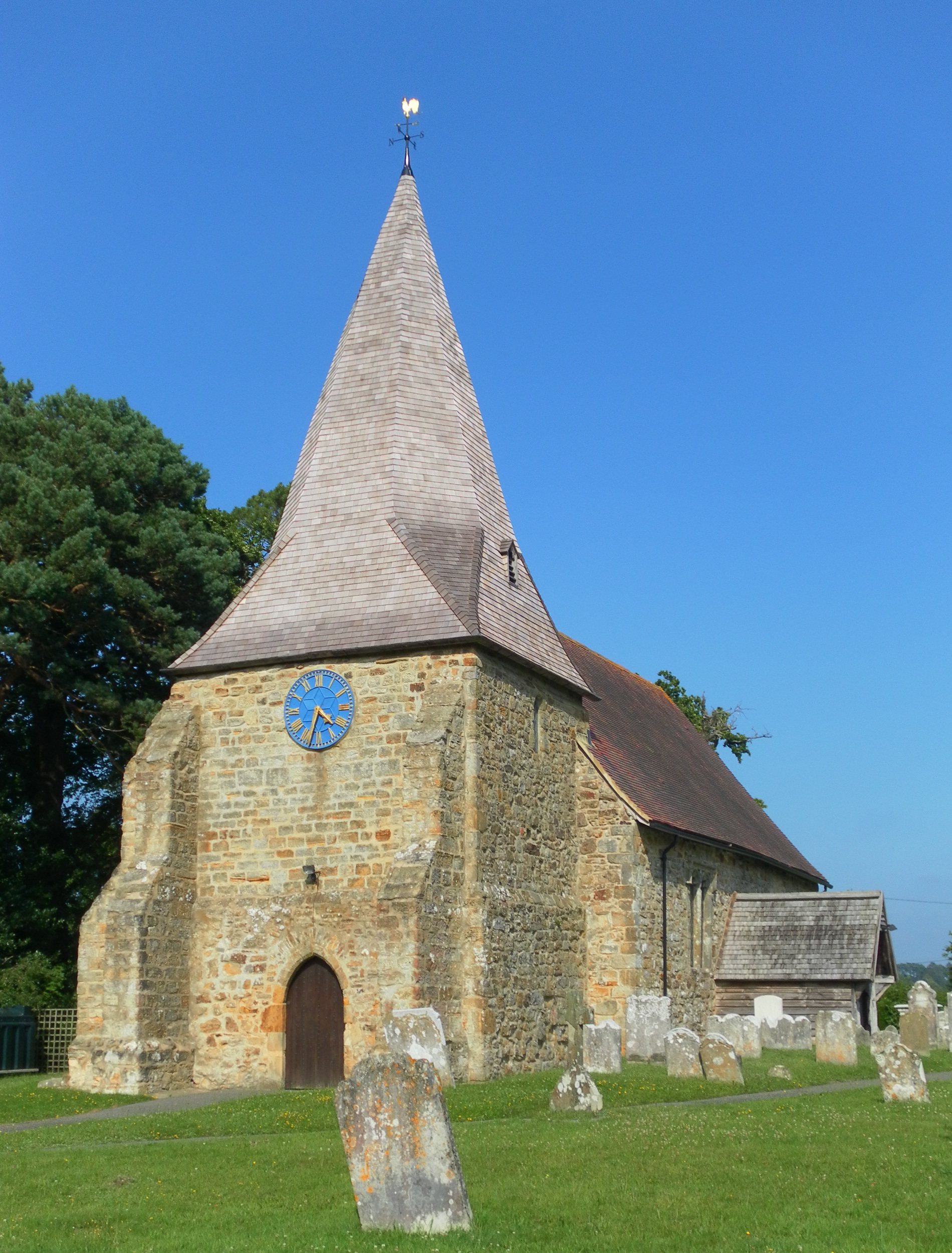 All Saints Church, Mountfield, Rother District, East Sussex, England. Listed at Grade II* by English Heritage (NHLE Code 1275863)